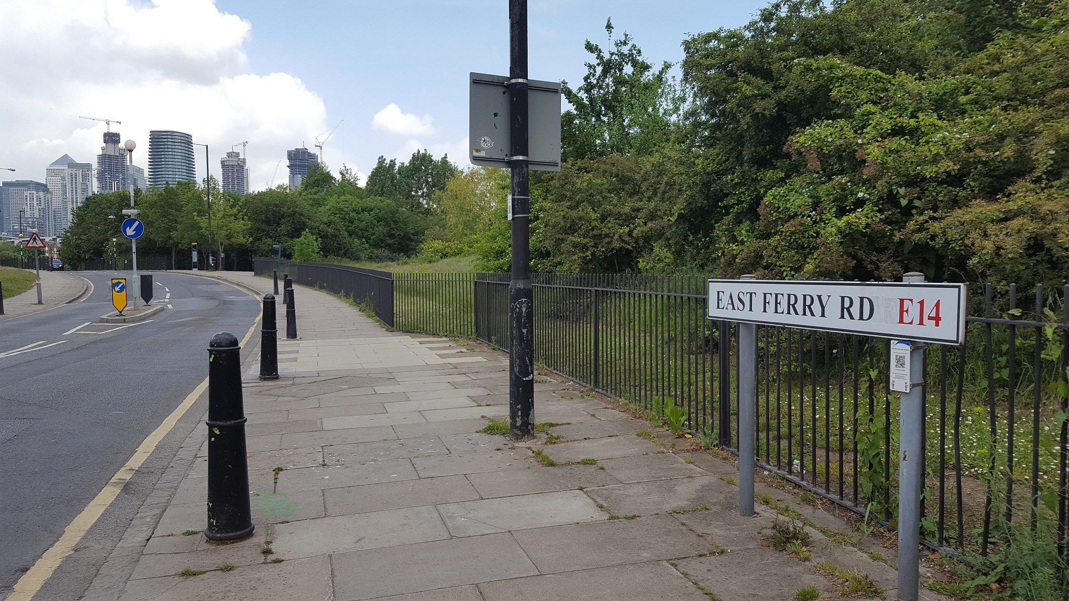 The signpost is located close to Millwall Park and directly opposite the entrance to Spindrift Avenue